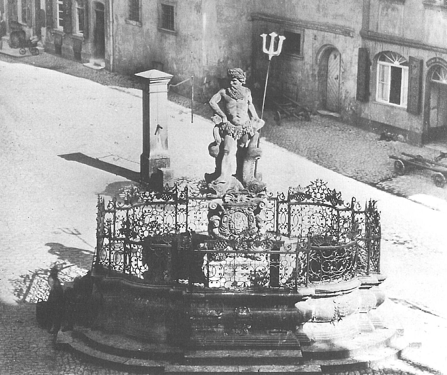 historic photography of Bamberg, Germany